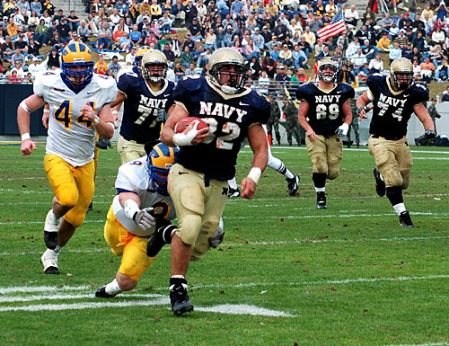 Description from source website: Navy fullback Kyle Eckel, a senior from Haverford, Pa., tries to outrun the Delaware defense. Eckel rushed for 143 yards and helped Navy to a homecoming win, 34-20, over Delaware at Navy-Marine Corps Memorial Stadium, Oct. 30 in Annapolis, Md. U.S. Navy photo by Lt. Cmdr. Jane Campbell